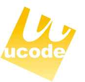 ucode icon